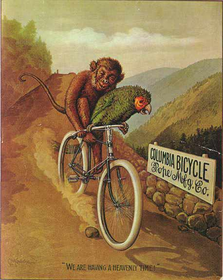 Advertisement for Pope Manufacturing Co., 1890s. "We are having a heavenly time."